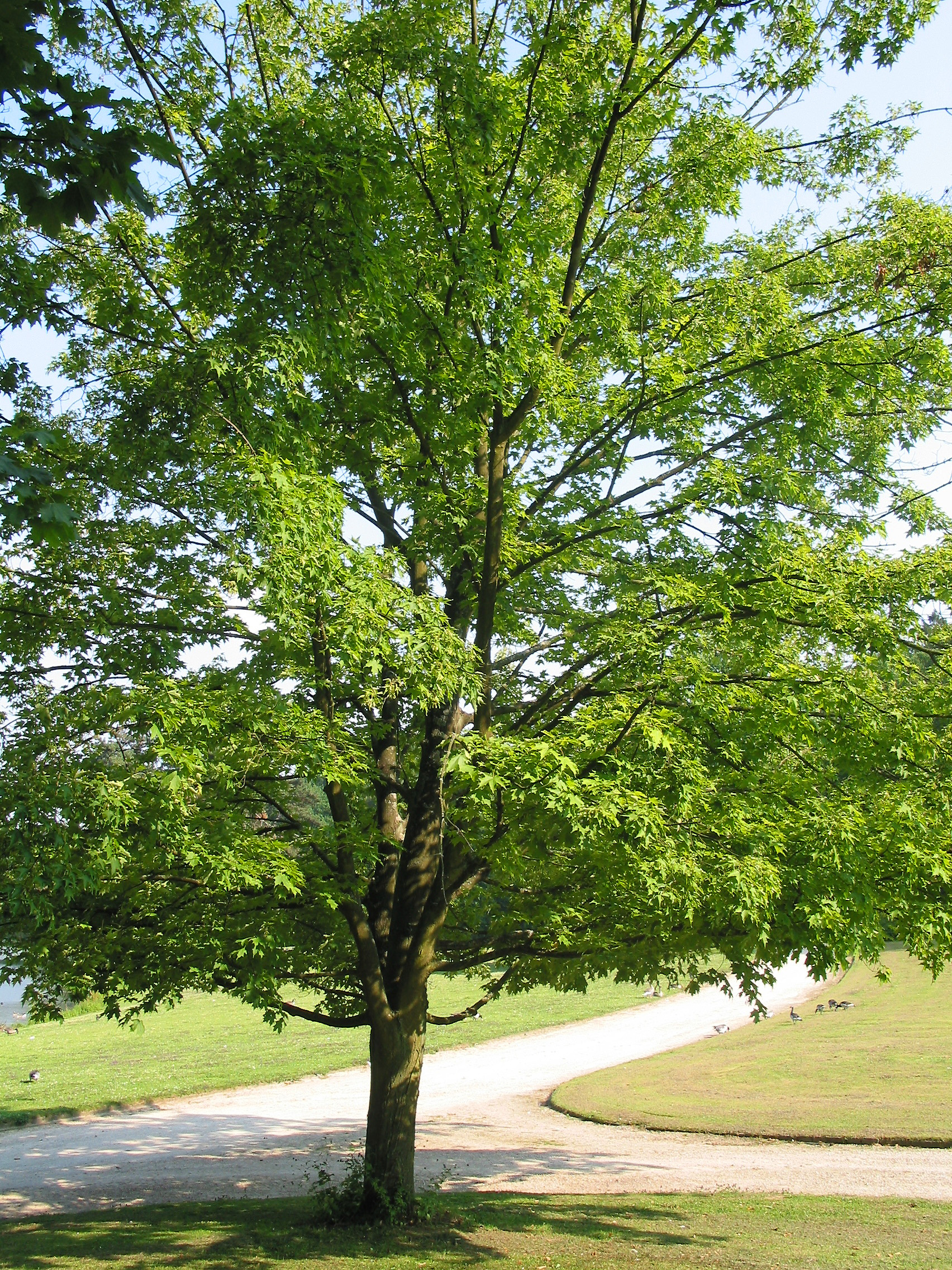 Meise (Belgium), National Garden of Belgium - Plant Palace - Acer saccharum - Sugarmaple.